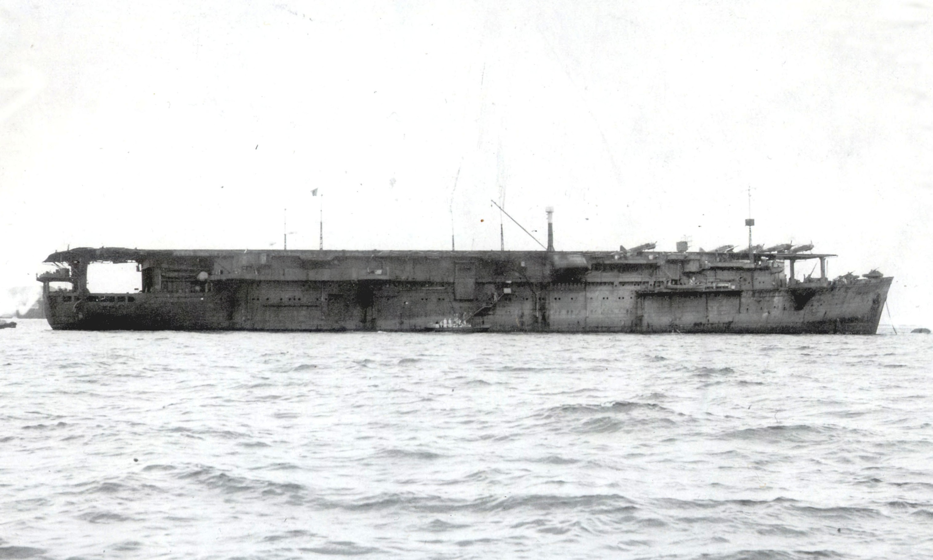 日本海軍航空母艦大鷹型「大鷹 横須賀にて停泊中の写真。 Imperial Japanese Navy's aircraft carrier, Taiyo in habor at Yokosuka, Japan